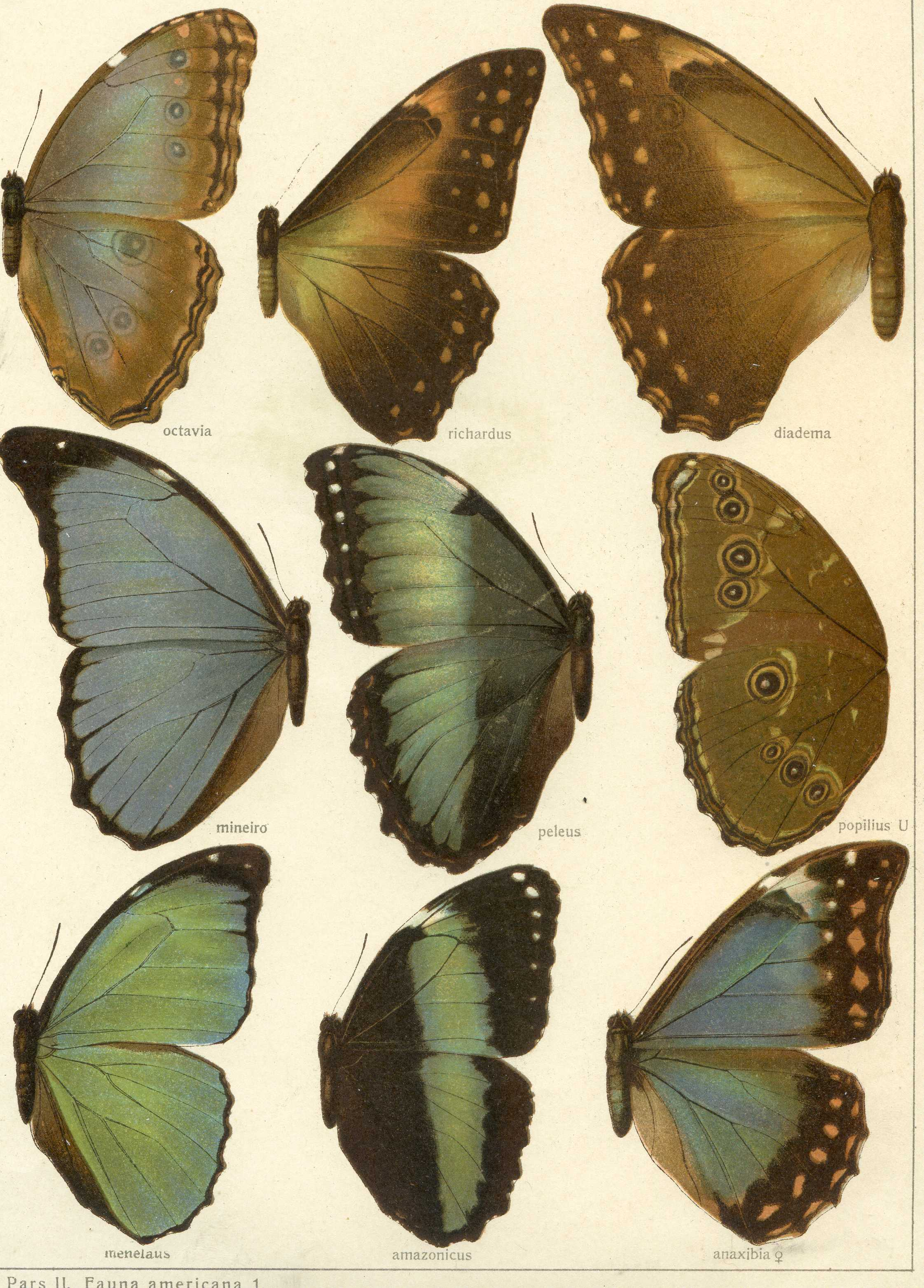 Plate from Adalbert Seitz ed. The Macrolepidoptera of the world; a systematic description of the hitherto known Macrolepidoptera Volume V: The American Rhopalocera. Stuttgart 1924 - Page 6- (MORPHO) German Grossschmetterlinge der erde French Les Macrolépidoptères du Globe. Révision systématique des Macrolépidoptères connus jusqu' à ce jour. Stuttgart, Kernen, 1911-1945. The French edition was published by Eugène Le Moult (1882-1967) and also distributed by him. Octavia - Morpho helenor octavia Bates, 1864 richardus - Morpho richardus Fruhstorfer, 1898 diadema - synonym for Morpho hercules (Dalman, 1823) mineiro - synonym for Morpho menelaus coeruleus (Perry, 1810) Peleus - Morpho helenor peleus Röber, 1903 popilius - Morpho helenor popilius Hopffer, 1874 menelaus - Morpho menelaus (Linnaeus, 1758) amazonicus - synonym for Morpho helenor (Cramer, 1776) anaxibia - Morpho anaxibia (Esper, 1801)